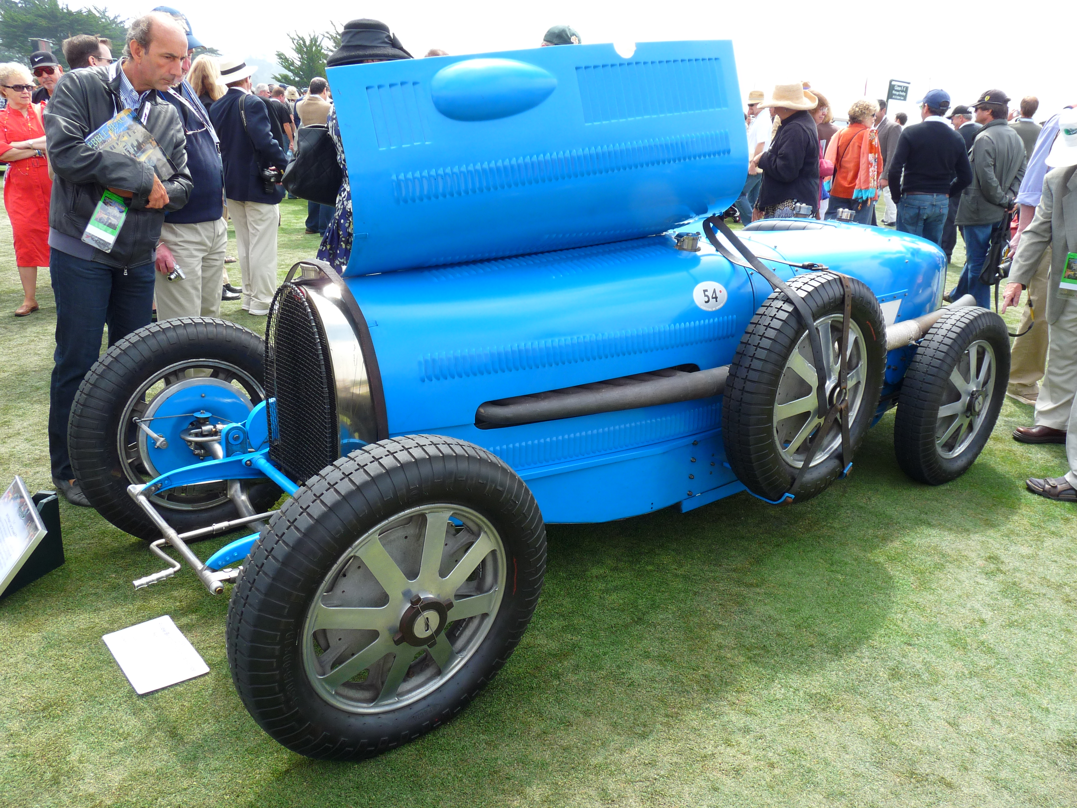 1931 Bugatti type 54 Grand Prix